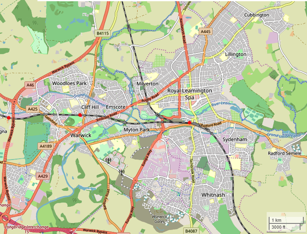 Map of Warwick, Leamington Spa and Whitnash, Warwickshire This map may be incomplete, and may contain errors. Don't rely solely on it for navigation.